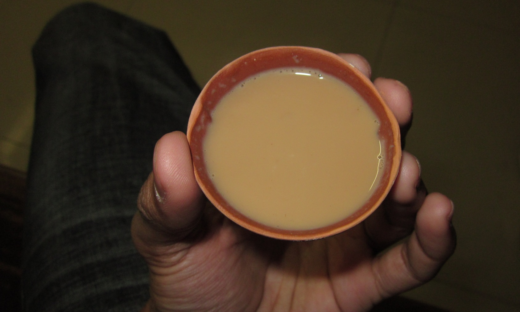 Tea served in a kulhar [terracotta cup]